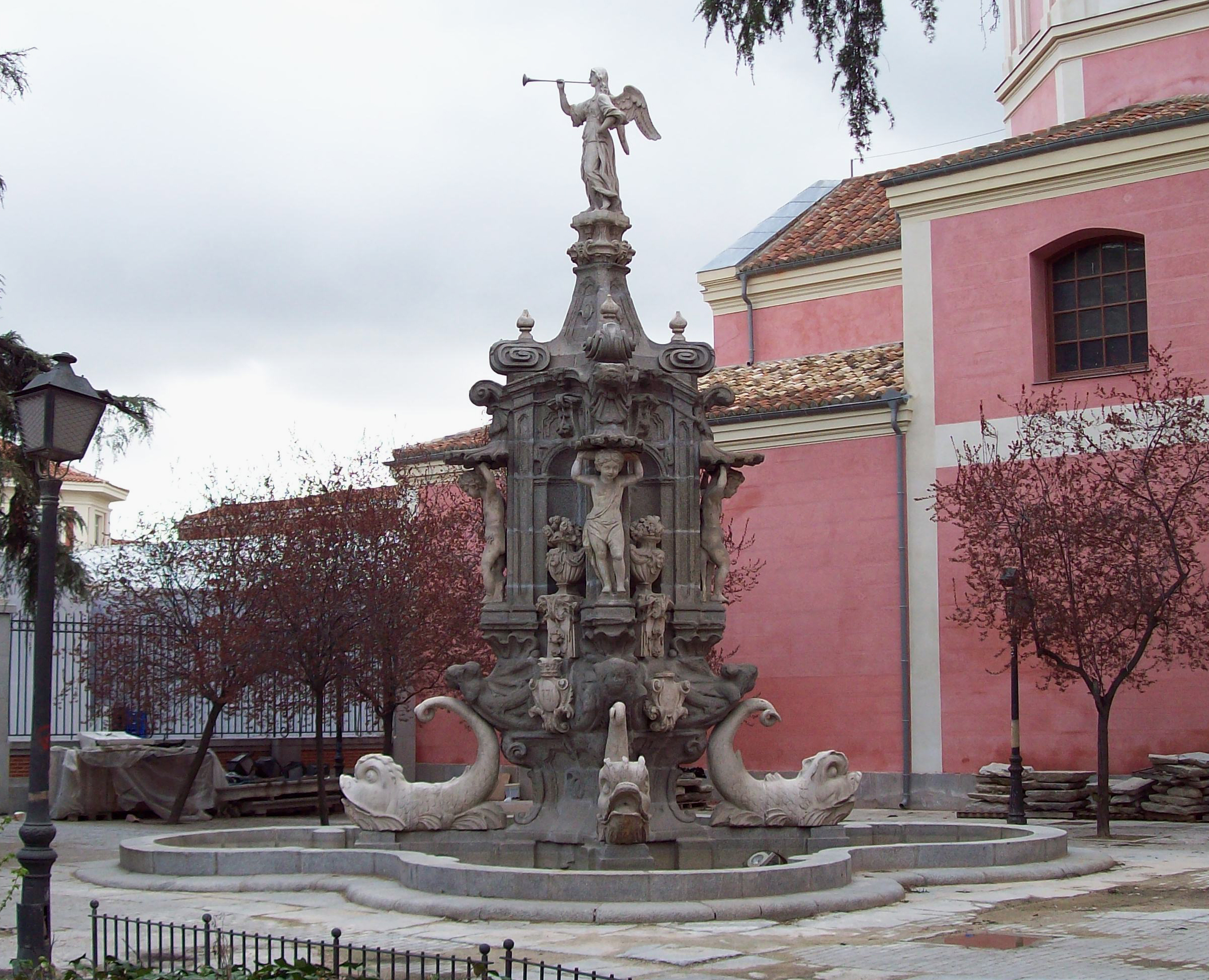 View of the Fountain of Pheme in Madrid (Spain).